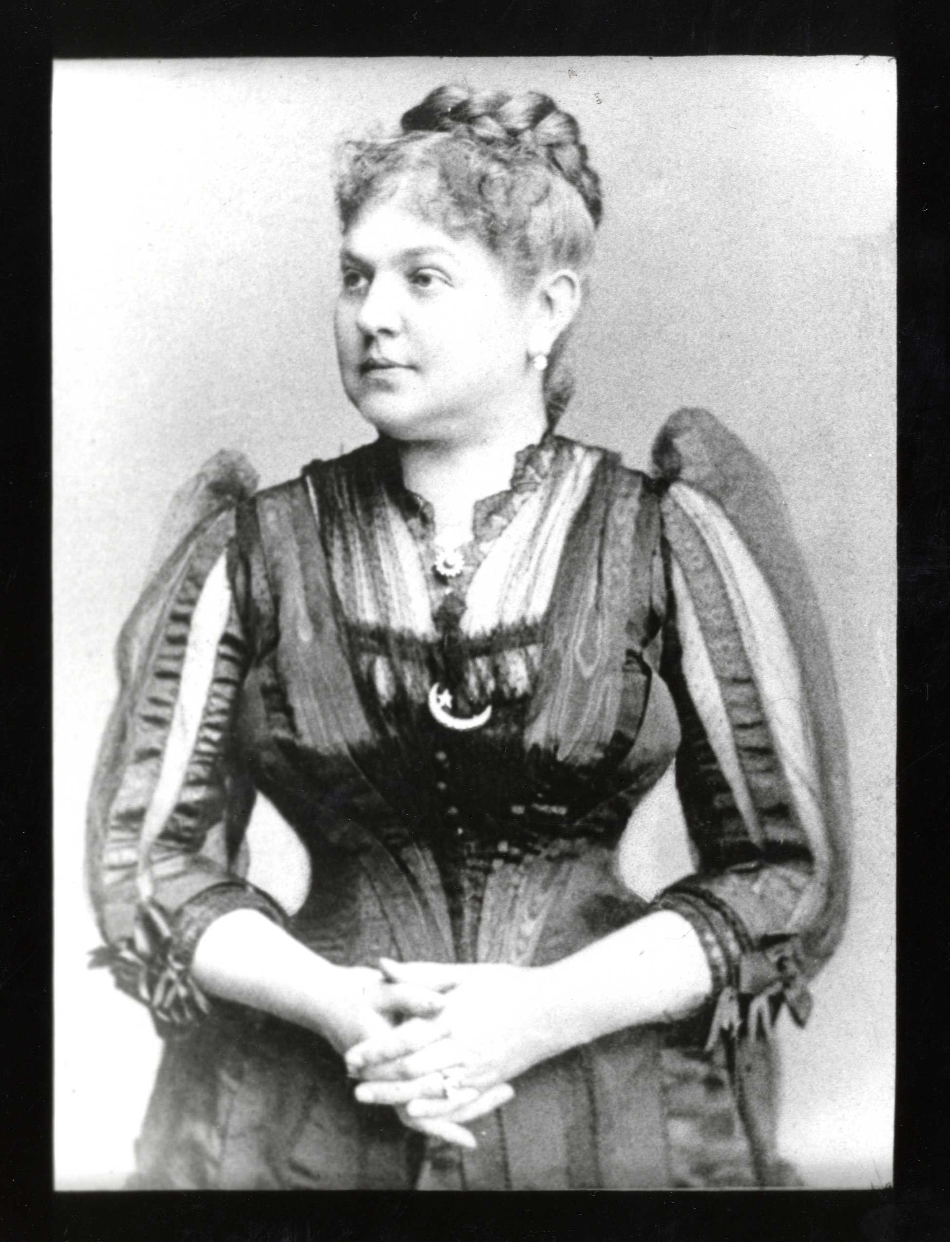 Olivia Meily Brice